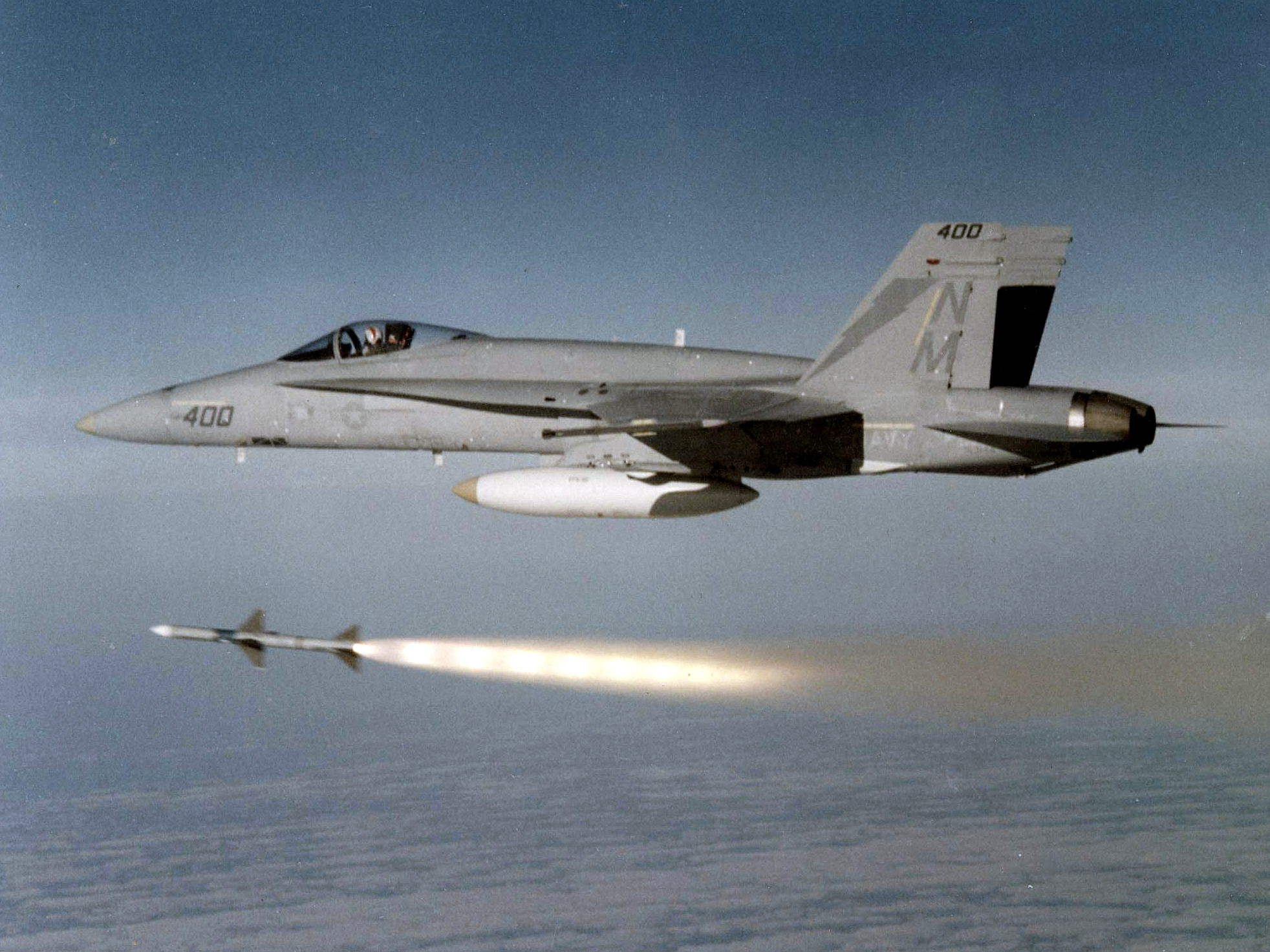 A U.S. Navy McDonnell Douglas F/A-18A Hornet of Strike Fighter Squadron VFA-161 "Chargers" launches an AIM-7 Sparrow missile. VFA-161 was assigned to the short-lived Carrier Air Wing 10 (CVW-10, tail code "NM"). It was established in November 1986 and should have been assigned to the USS Independence (CV-62). However, it was only once deployed on the USS Enterprise (CVN-65) for a short tour along the U.S. Pacific coast and was disestablished again with all squadrons in November 1988.